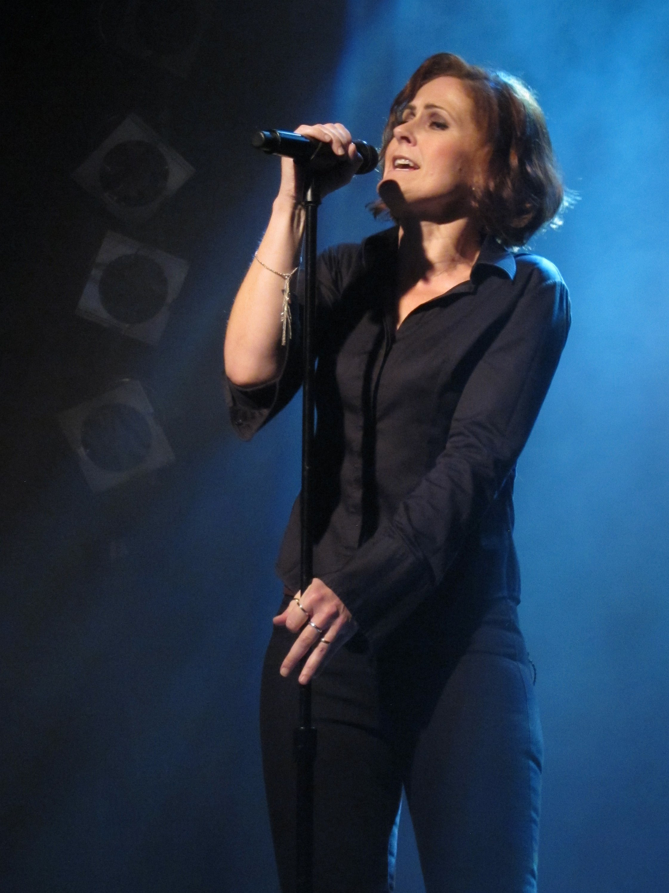 Alison Moyet in the Grünspan Hamburg, Germany, 24. Sept. 2013